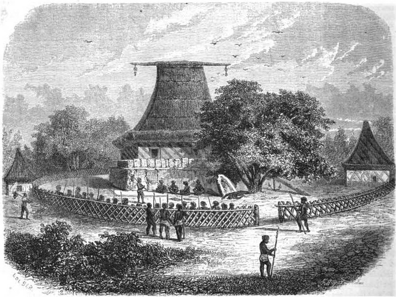 Mbure-kalou or temple, and scene of cannibalism.